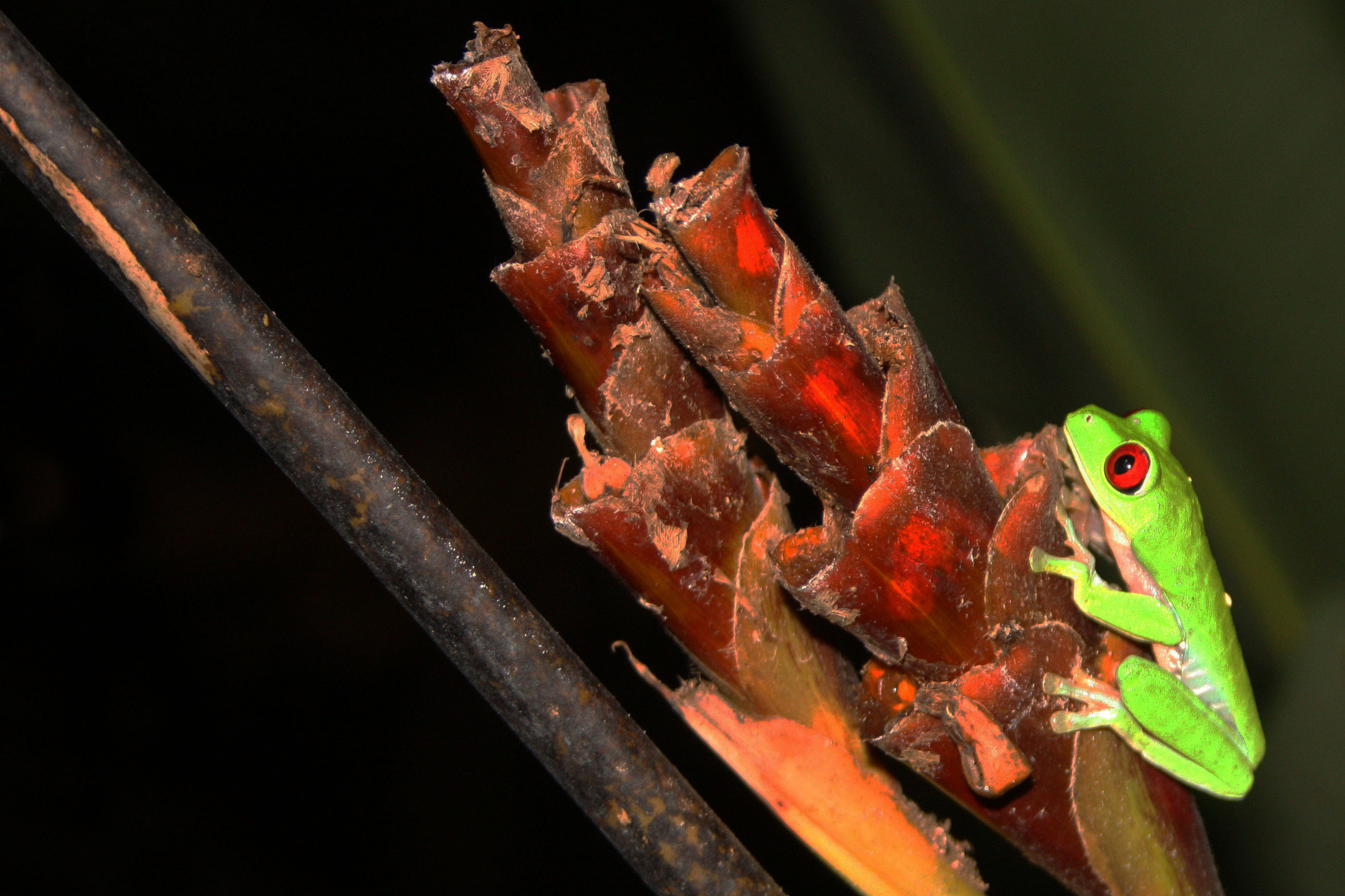 Red-eyed tree frog (Agalychnis callidryas) at night in Lapa Rios, the OSA Peninsula, Costa Rica